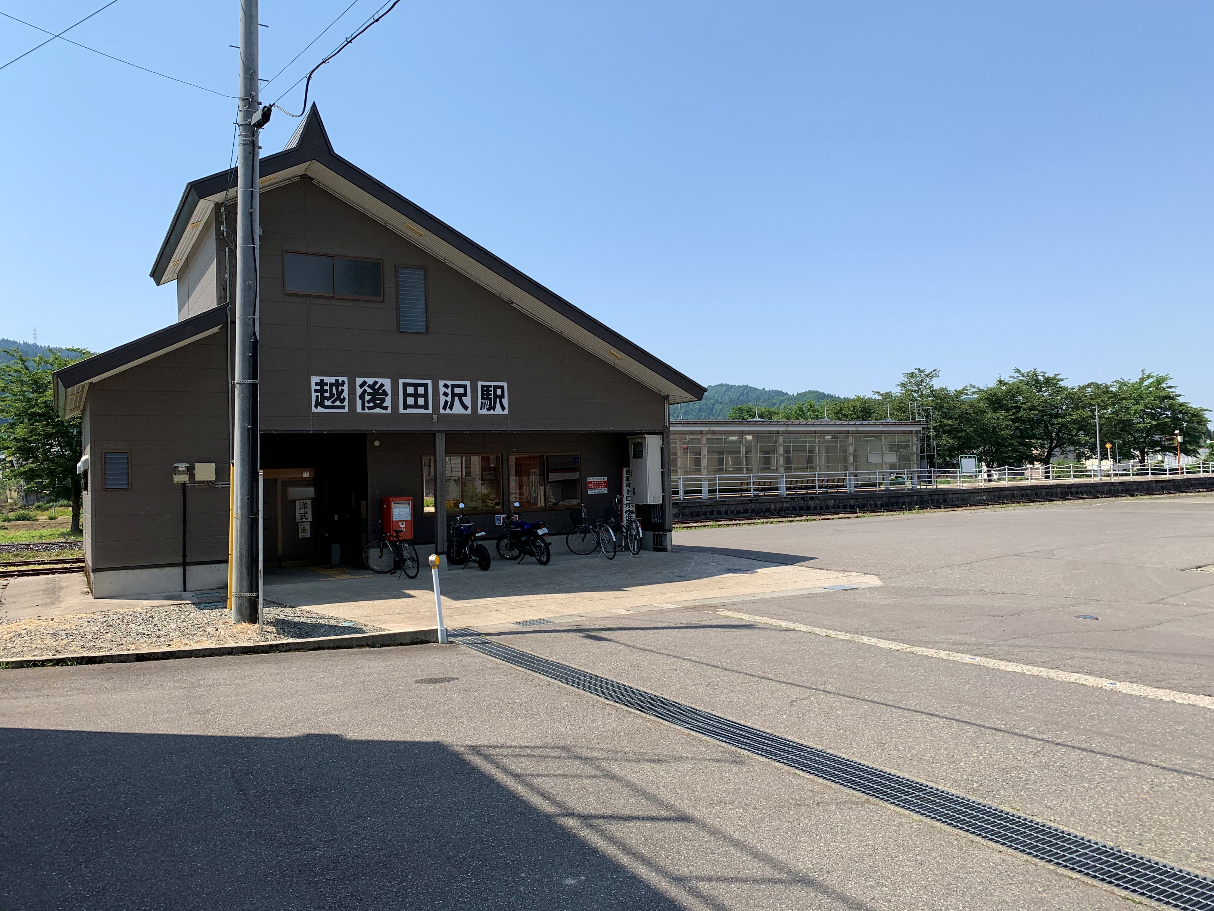 Echigo-Tazawa Station, East Japan Railway Company. Took photo in June 2020.